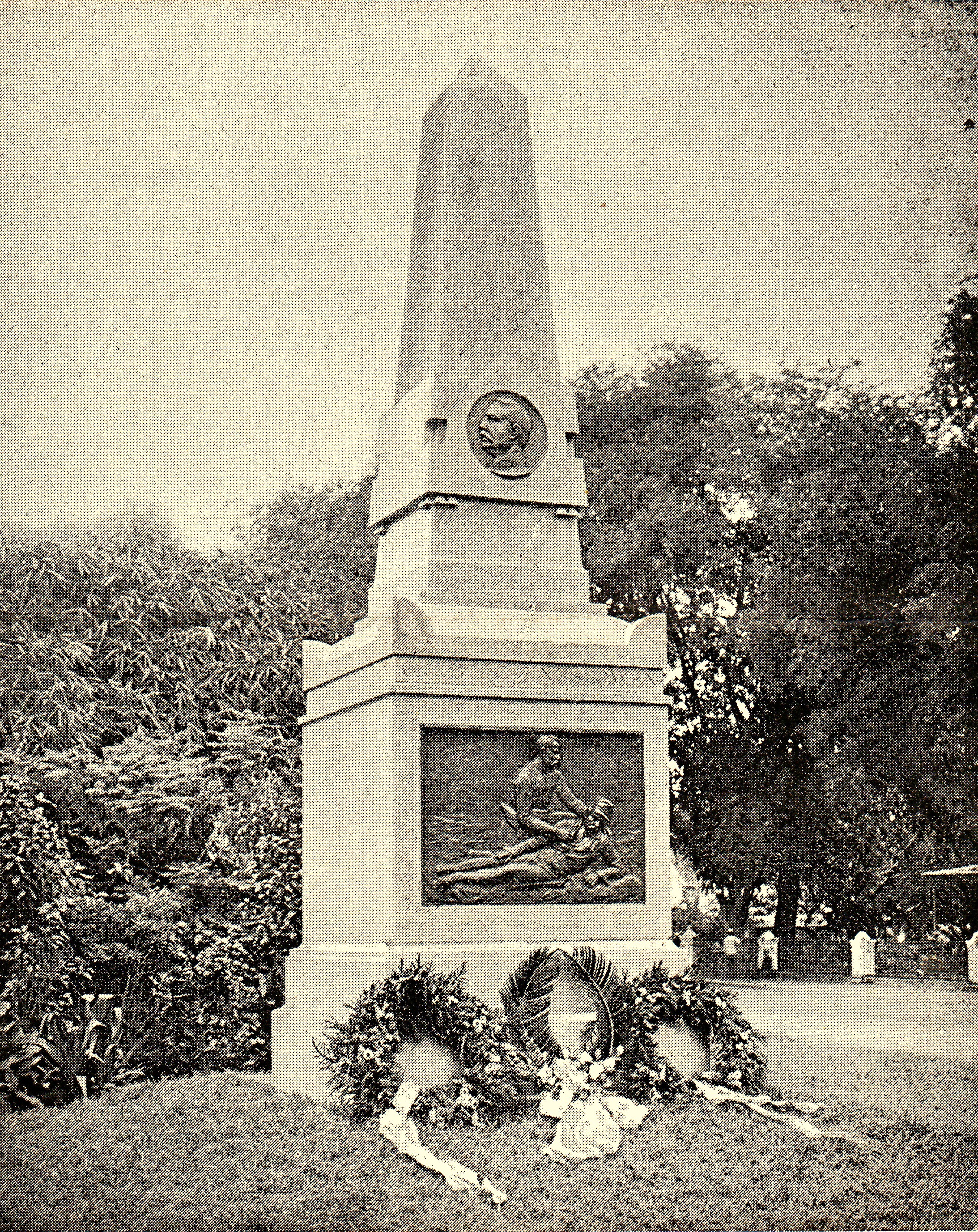 Monument van Gunther von Bultzingslowen te Soerabaya